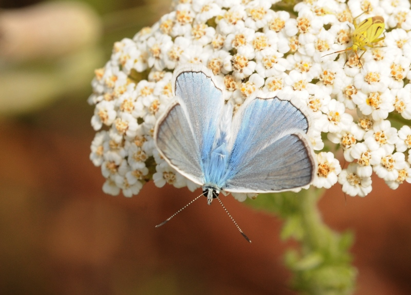 Wing upperside view of a male of "Meleager's Blue" butterfly. Şenyurt, Yakutiye, Erzurum - Turkey. 2450 m.